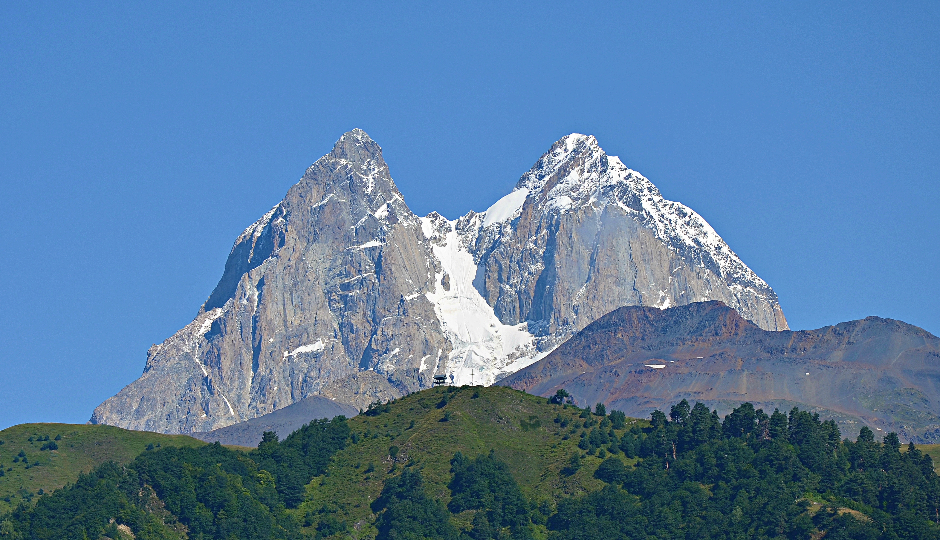 Ushba (Georgian: უშბა) is one of the most notable peaks of the Caucasus Mountains. It is located in the Svaneti region of Georgia, just south of the border with the Kabardino-Balkaria region of Russia.